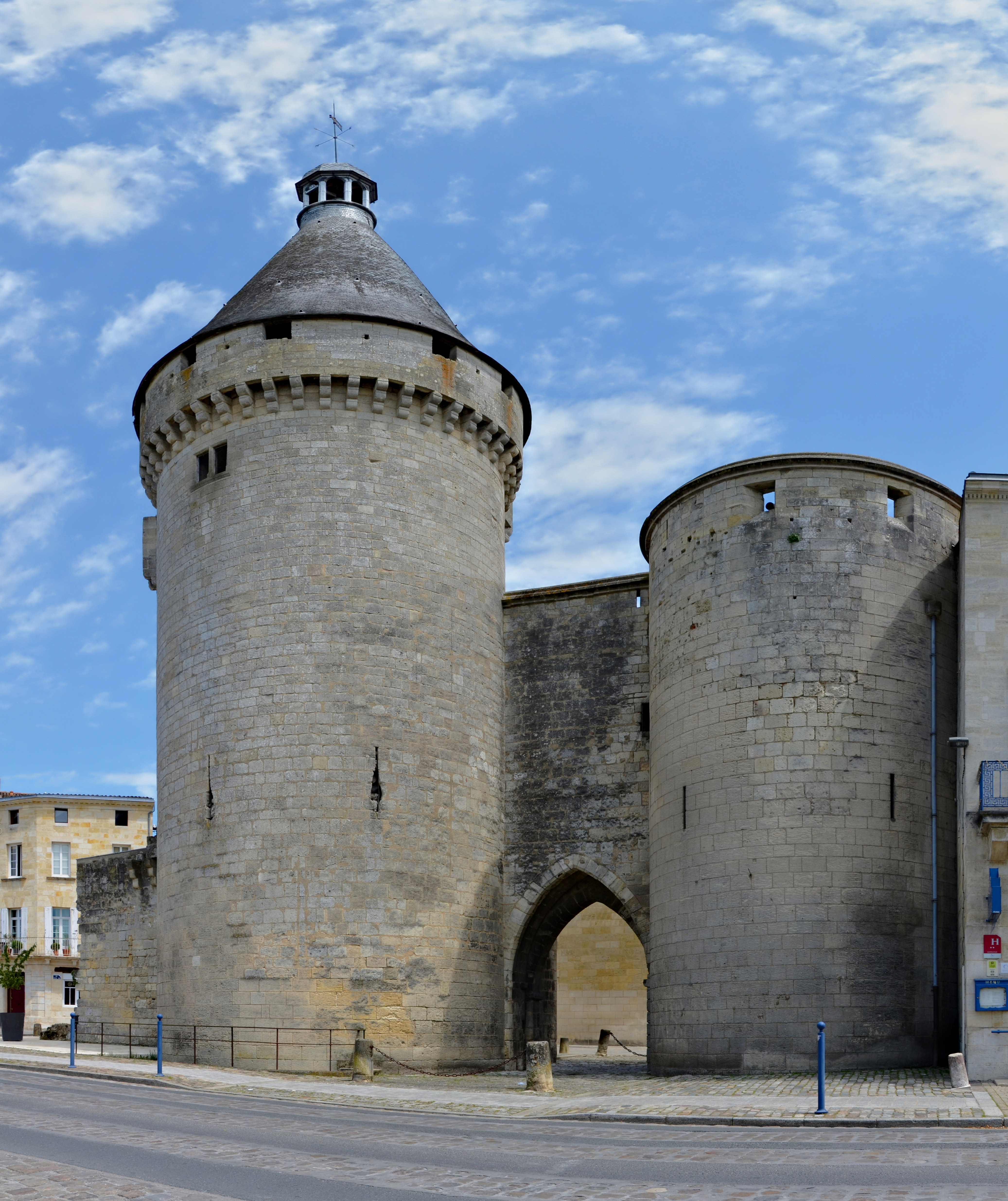 Porte du Port (Door of the Harbour, 14th century)) and two towers, Libourne, Gironde, France. .